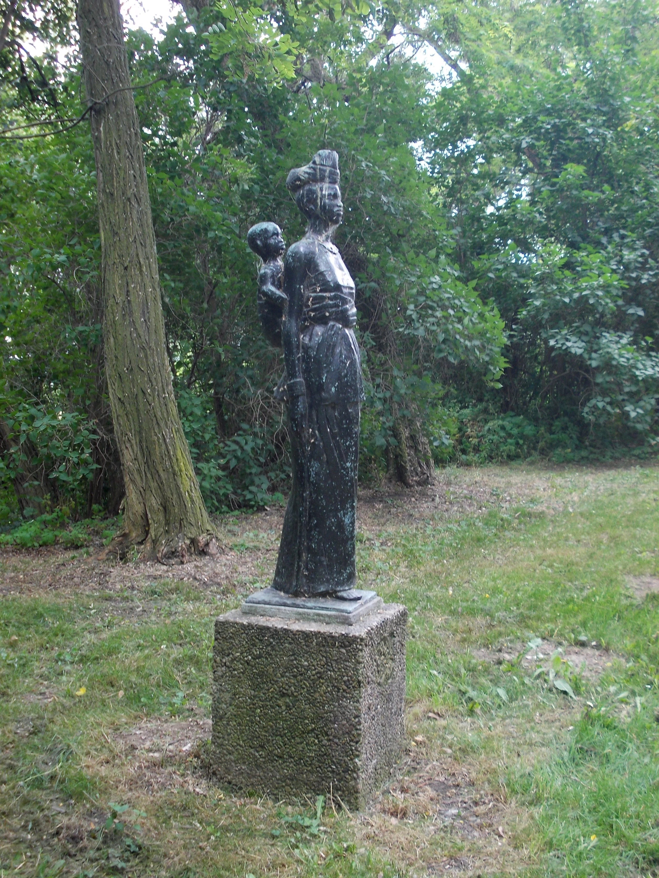 Sculpture Park in Leuna (district: Saalekreis, Saxony-Anhalt), "African woman with child" ny Gerhard Geyer